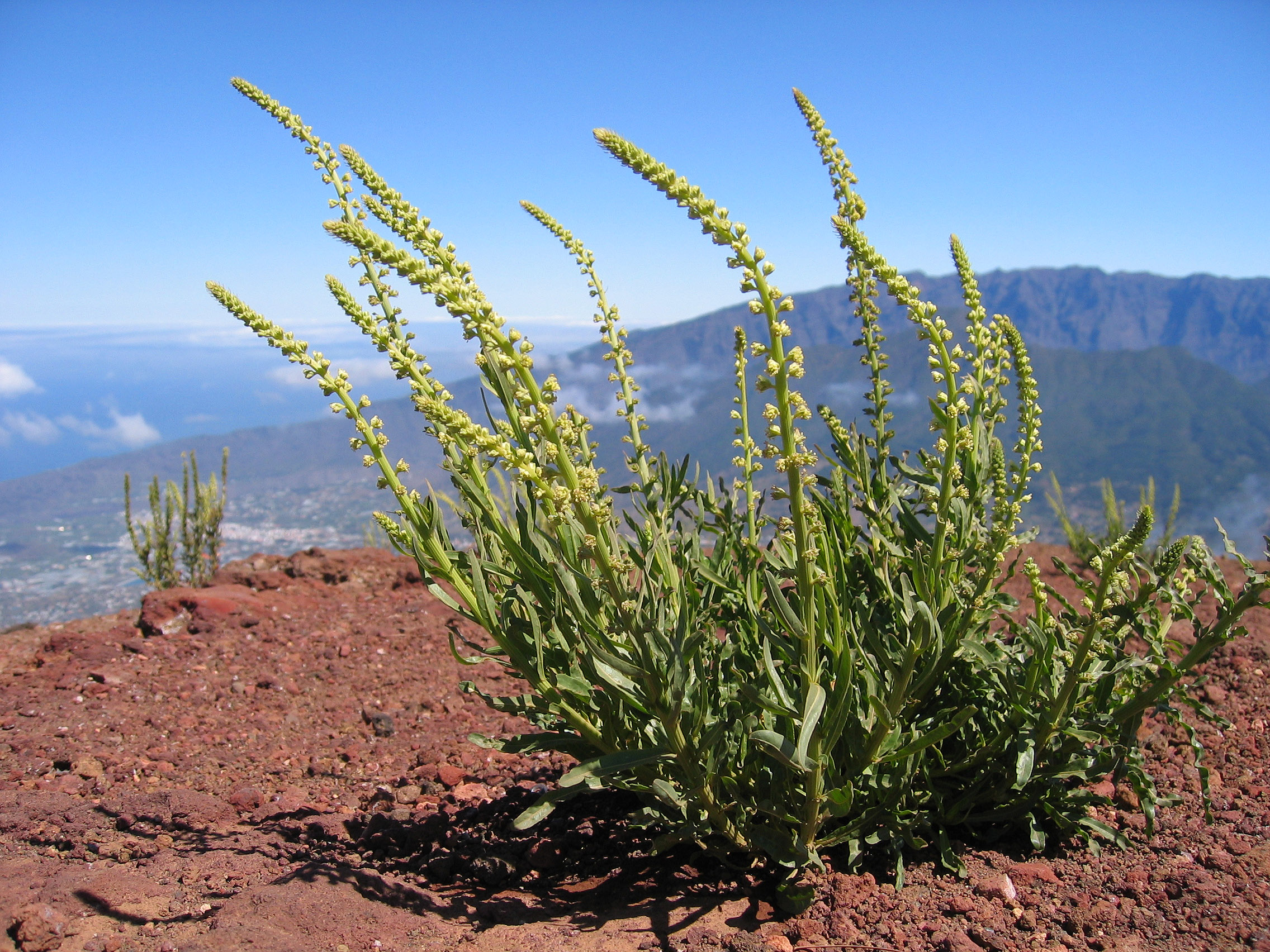 Reseda luteola, Pico Birigoyo, La Palma, Spain